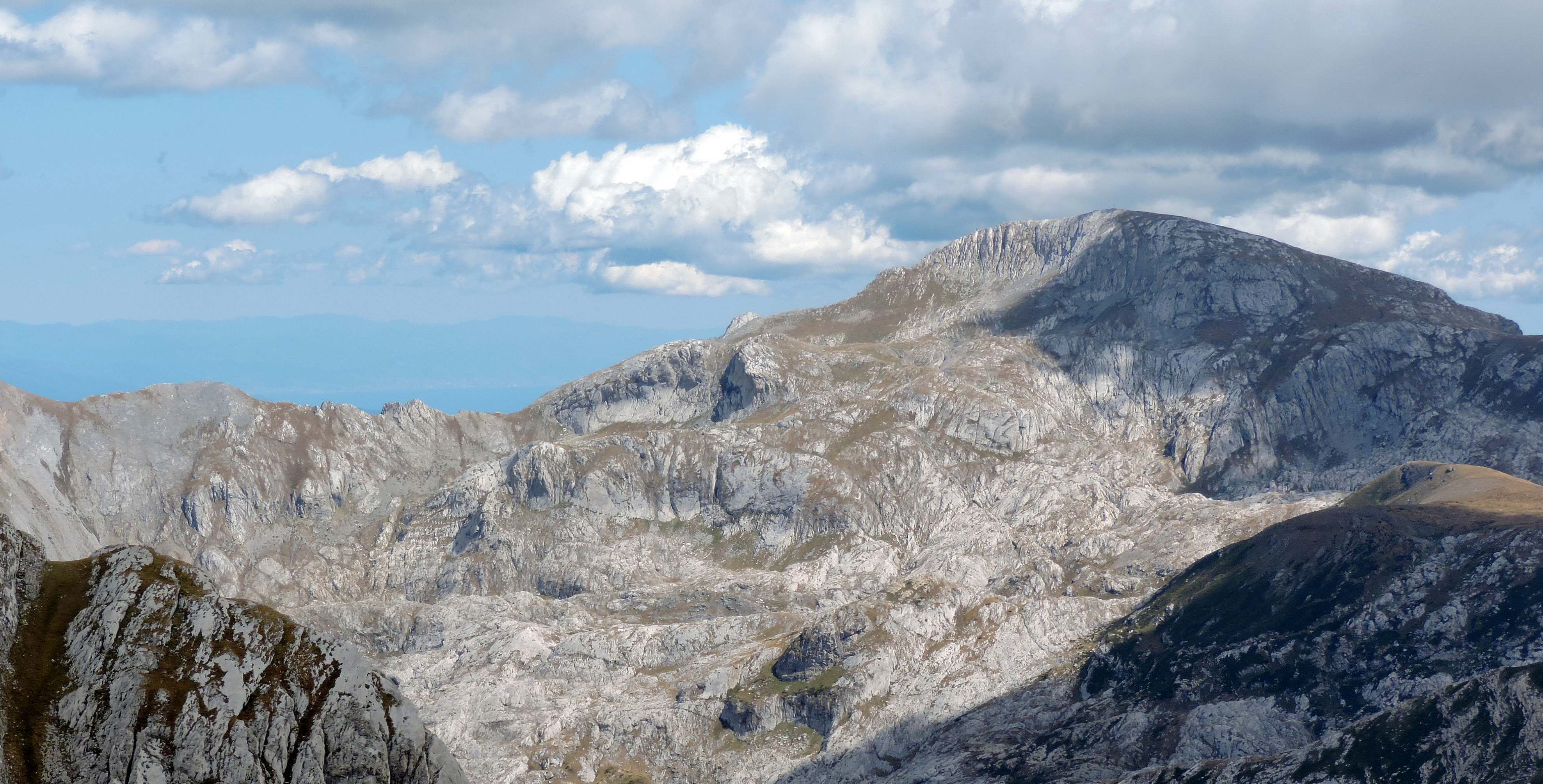 Monte Mongioie from the subsummit of Pian Ballaur (Ligurian Alps, Italy)